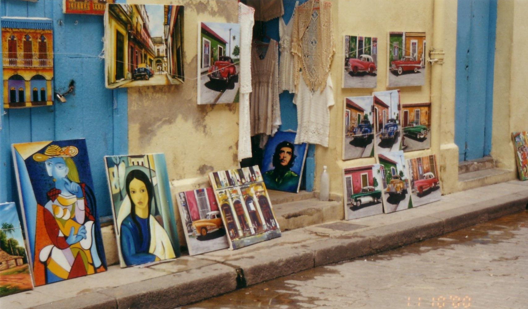 art shop, Havana